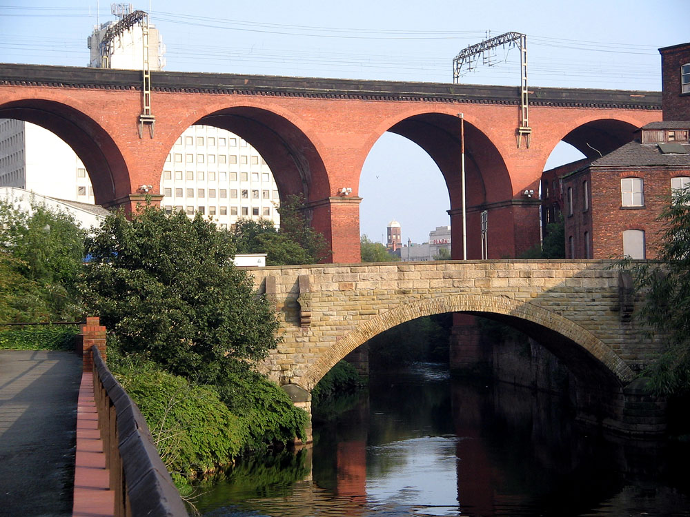 Stockport railway viaduct, carrying the West Coast Main Line over the Mersey valley. Photo by G-Man * Oct 2006